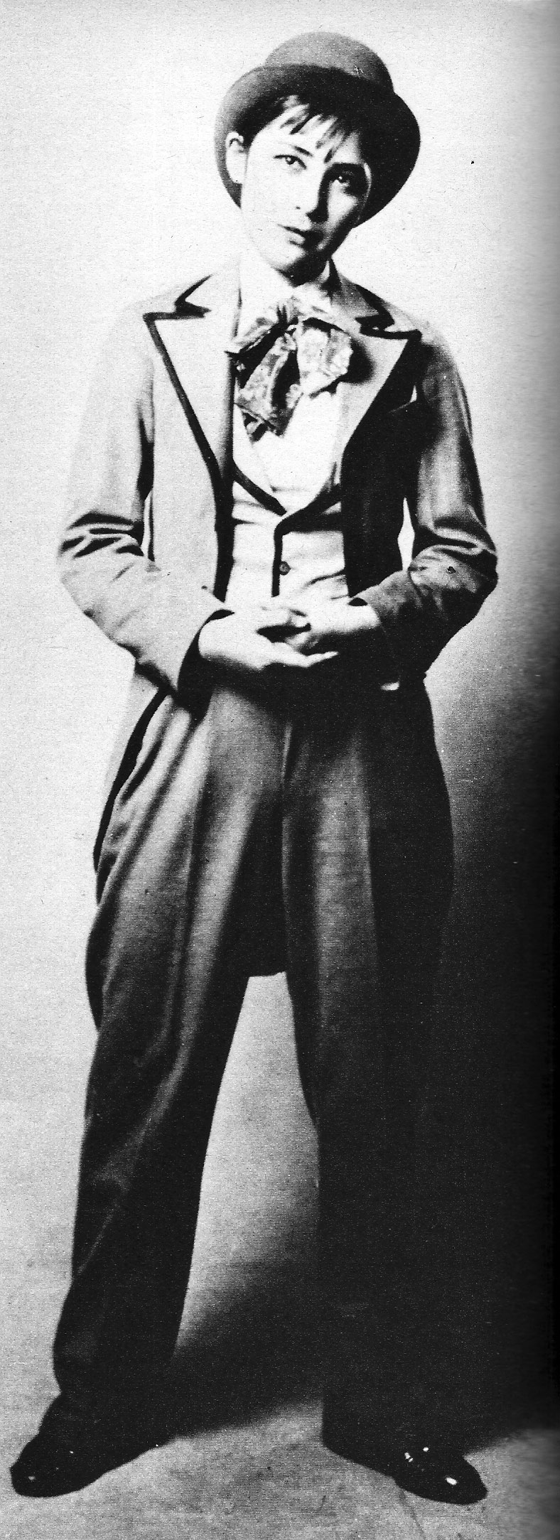 Takiko Mizunoe (1915–2009)